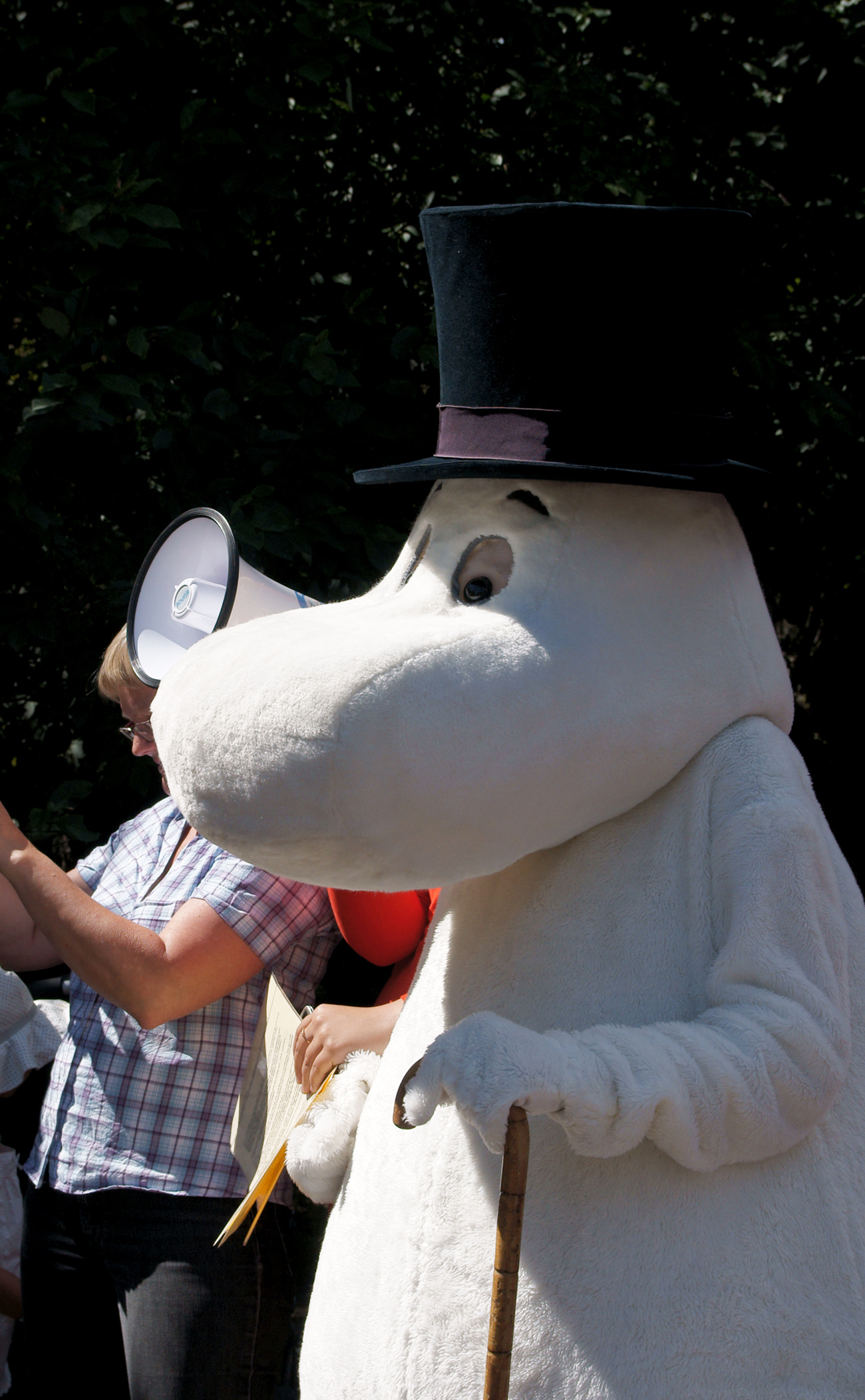 Moominpappa in Moomin World theme park, Naantali, Finland.